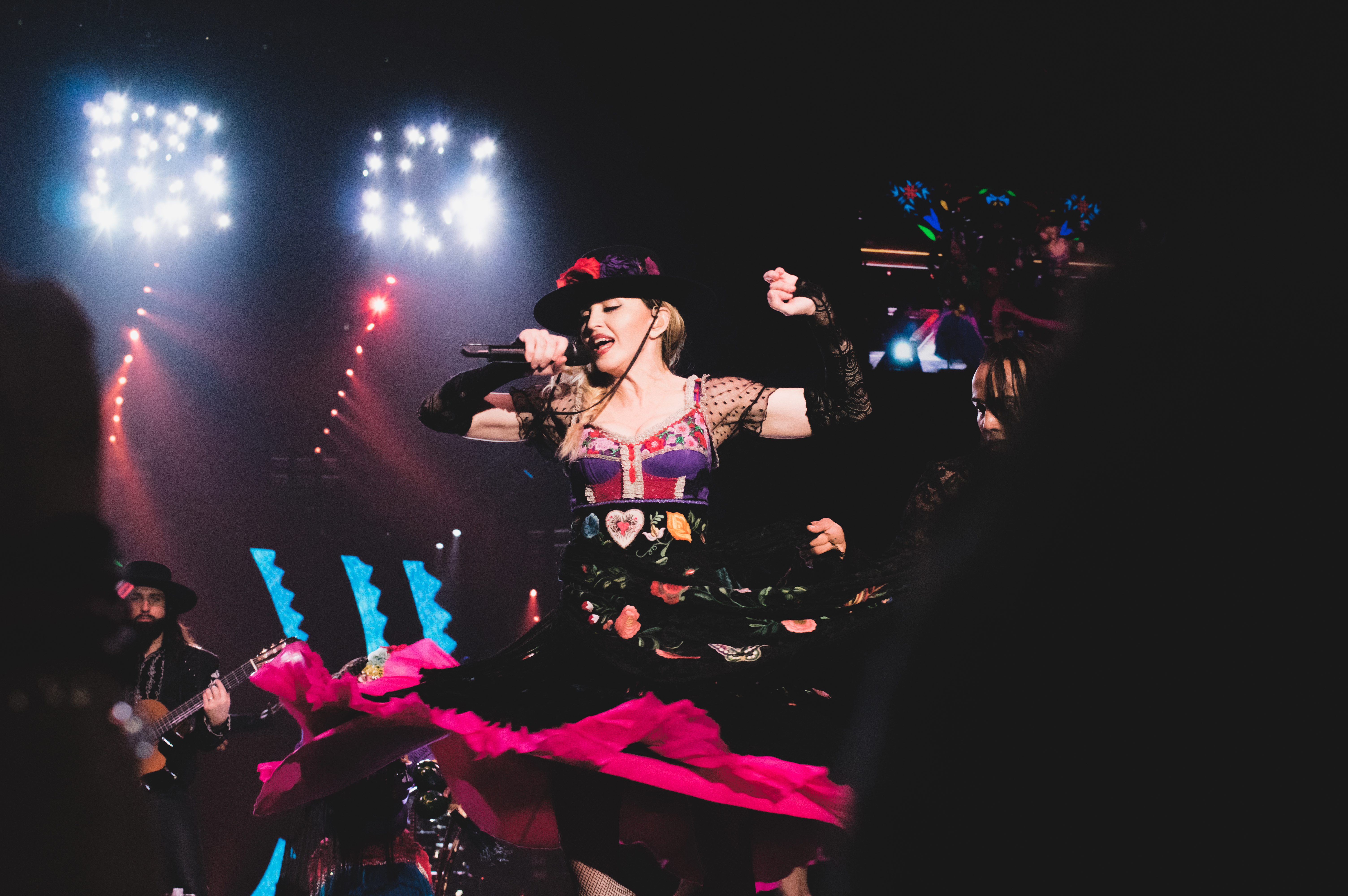 Wells Fargo Center / Philadelphia, PA